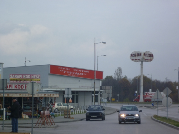 Arizona Market